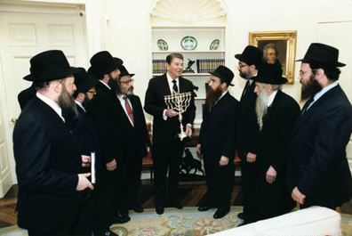 President Ronald Reagan accepts Hanukkah Menorah from Jewish organization, "Friends of Lubavitch."